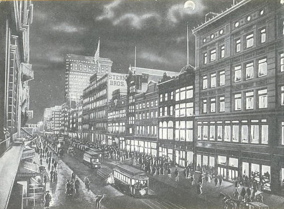 Postcard: 23rd Street in Manhattan, New York City, estimated to have been published in 1910. Caption: "Twenty-third Street, Shopping District, by Night, New York" Description: Unmailed postcard. Store Web page states year published is estimated to be 1910 (title of Web page: "NY~NEW YORK CITY~23rd Street at Night~c1910 BEAUTY" Picture side of postcard (only side shown on store Web page) states "1940 ILLUSTRATED POST CARD CO., NEW YORK." The number "1940" is a typical inventory or catalog number of a type seen on many postcards in the early Twentieth century. For a very similar example, see this image of a postcard apparently in the same series: :Image:PostcardNYCSubwayStationBrooklynBridgeCIRCA1908.jpg. Source: eBay store Web page